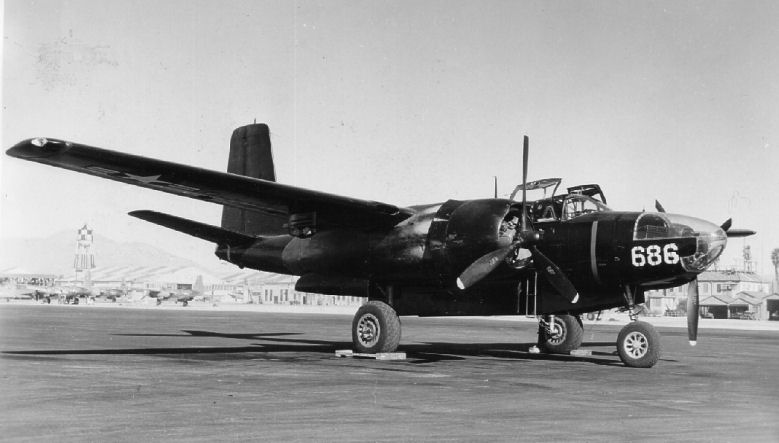 12th Tactical Reconnaissance Squadron, Night Photographic RB-26 Invader 44-35686 Kimpo AB (K-14), South Korea. (Photographed probably at Komaki AB, Japan)